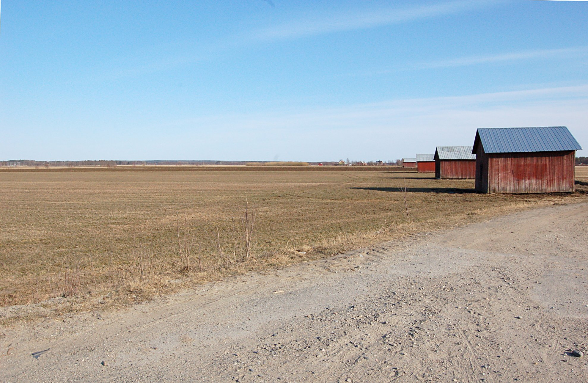 Röbäcksslätten, Sweden.